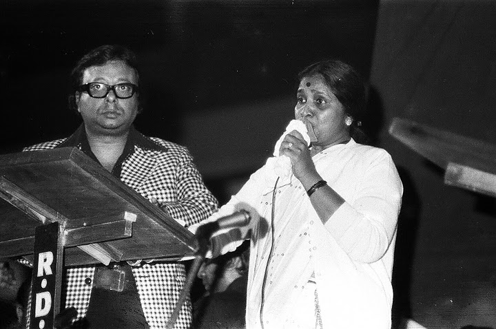 RDBurman and Asha Bhosle MI'81